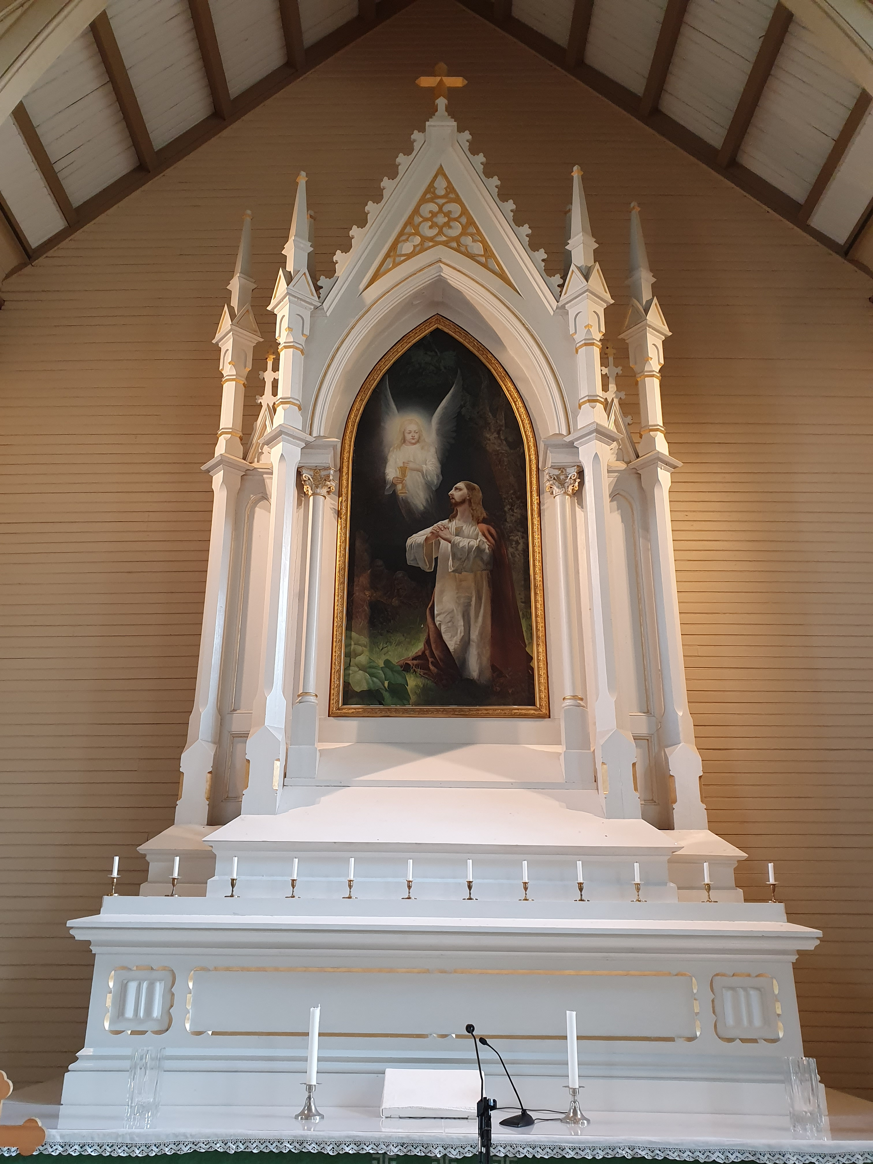 The interior of Heinävesi Church in 16 July 2019.